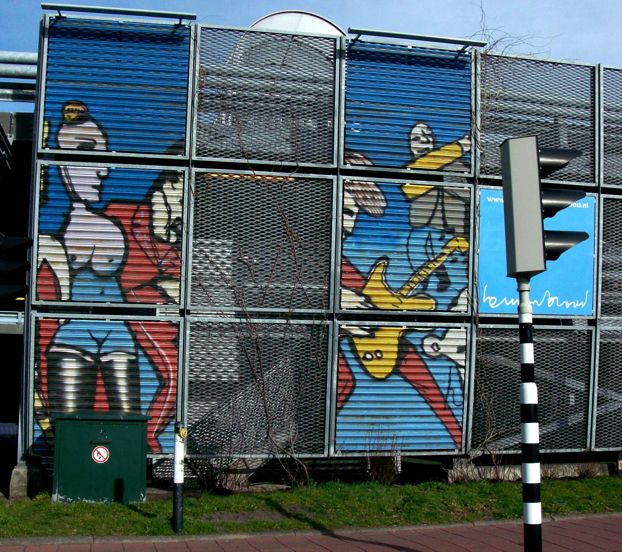 Murals by the Dutch rock star Herman Brood on the outside of the parking garage of shopping mall "Leidsenhage" in Leidschendam (Province of South Holland, Netherlands). They are, in fact, painted shutters. There were 8 of these large works of art (this is No.2). In 2011 they were removed by the owner of the garage, Unibail-Rodamco, and donated to the Herman Brood museum.